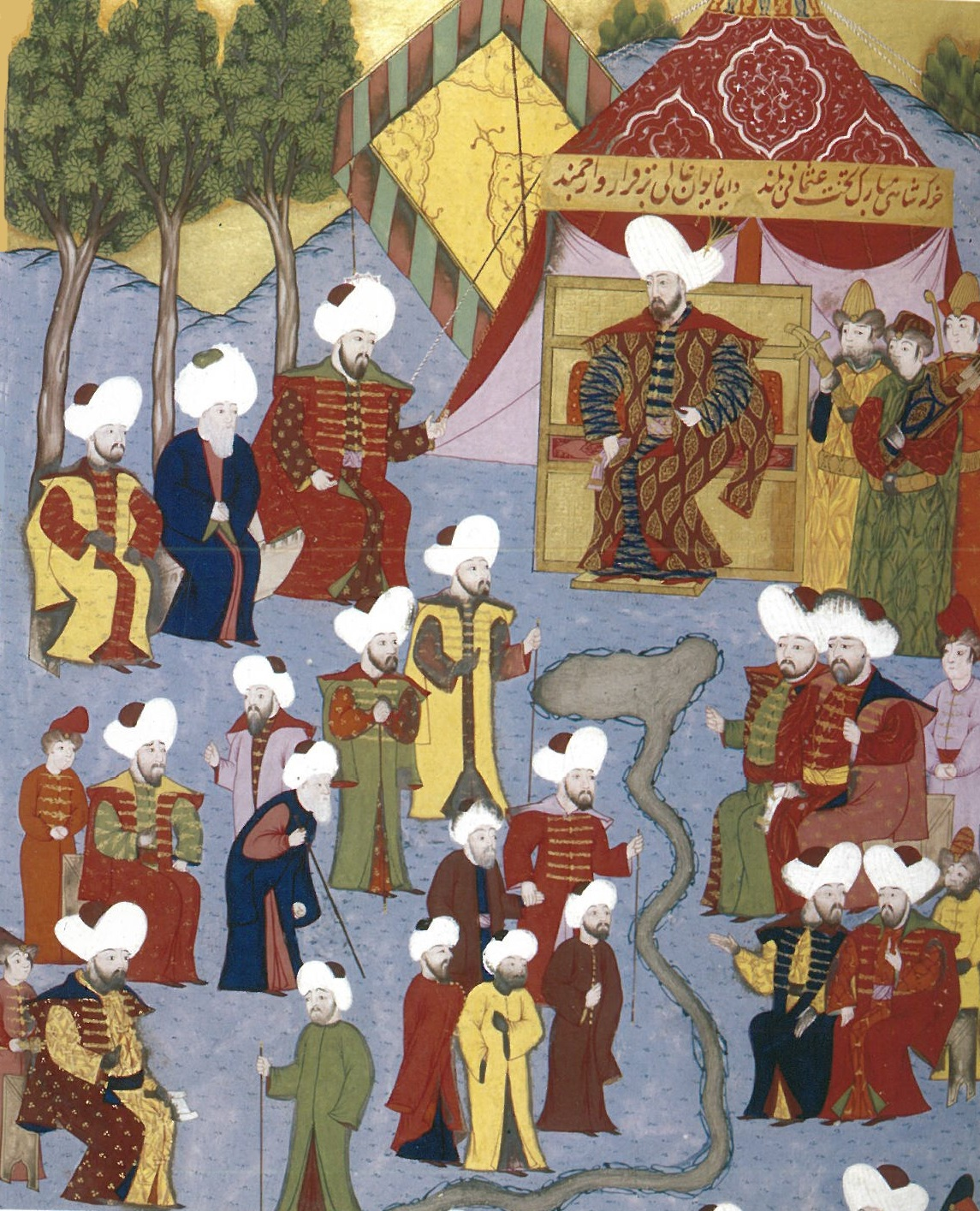 Ottoman miniature showing the Enthronement ceremony of Suleiman I.